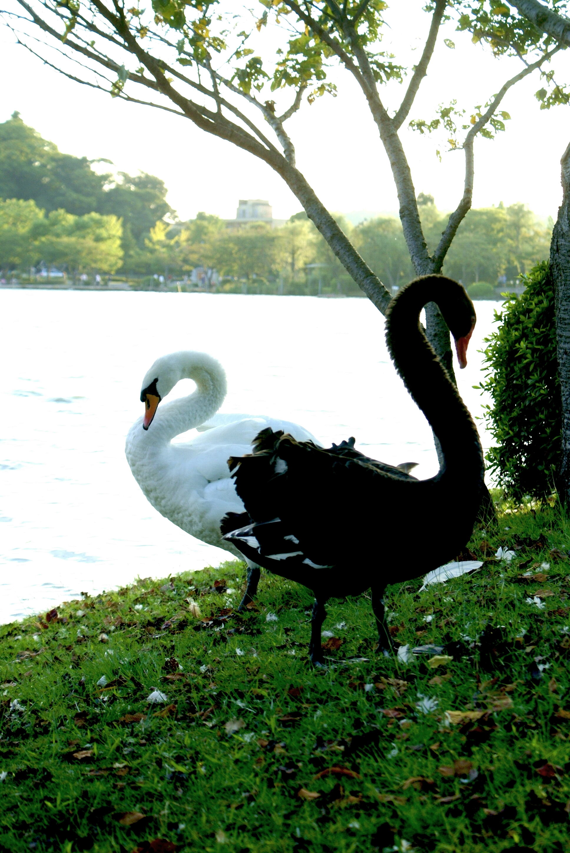 Cygnus olor and Cygnus atratus, introduced at Semba lake, Ibaraki prefecture, Japan